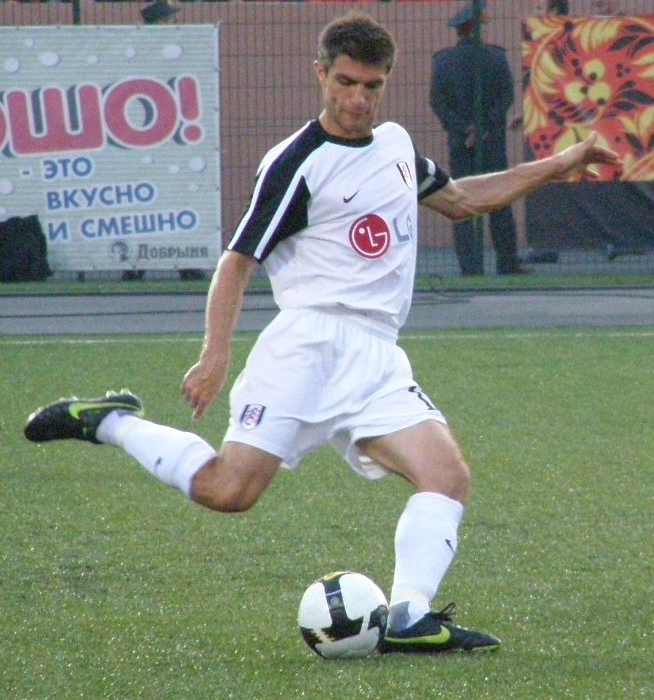 Aaron Hughes in action for Fulham F.C.